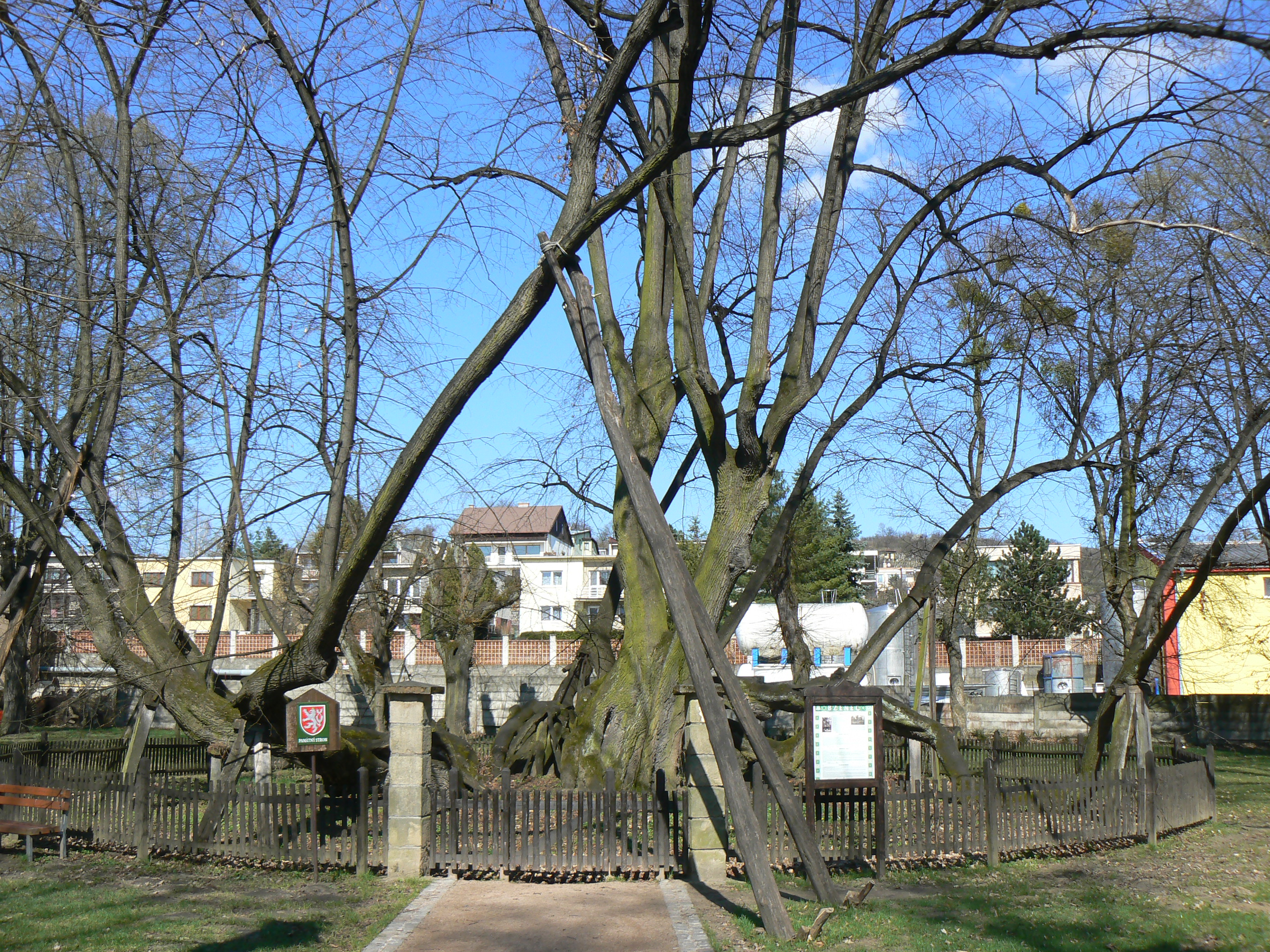 Lime tree in Bzenec, Hodonín District, Czech Republic